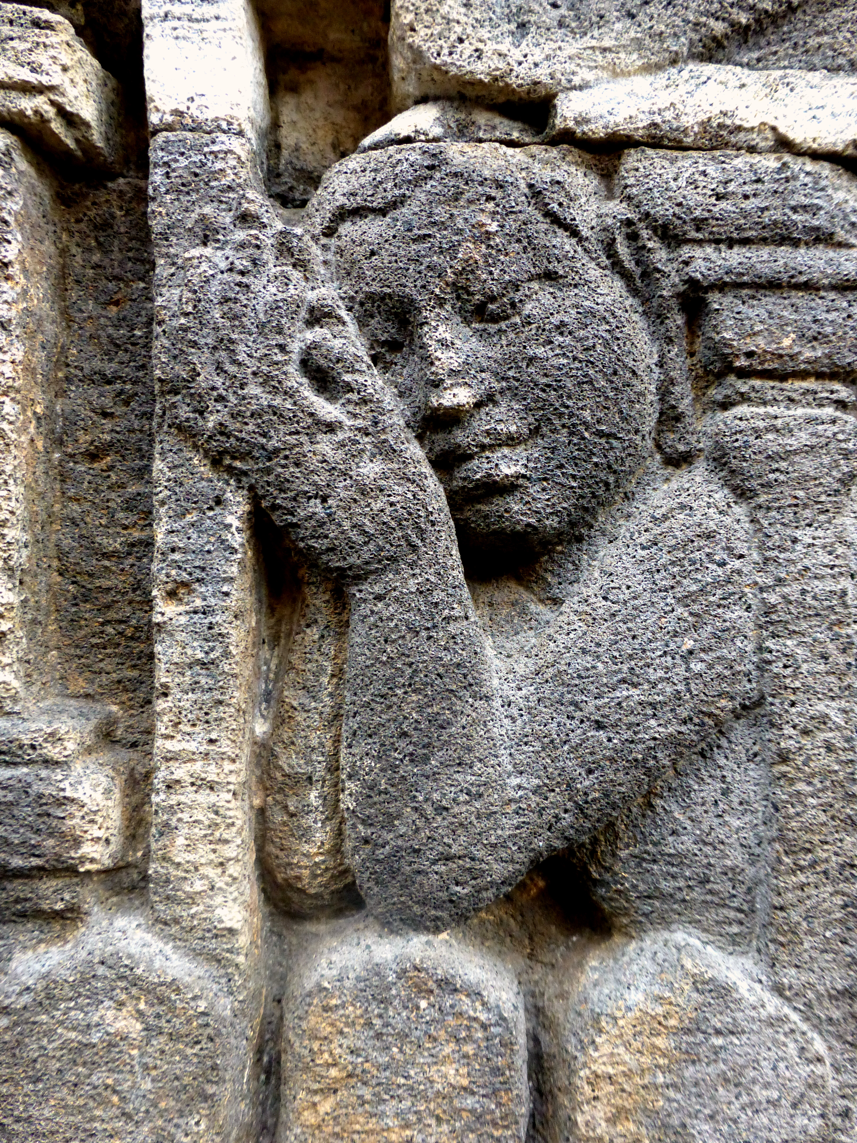 033 S, The King goes to Protect the Hermits (detail 3) at Borobudur Photograph of a Divyavadana relief at Borobudur in Java, Indonesia taken by Anandajoti.